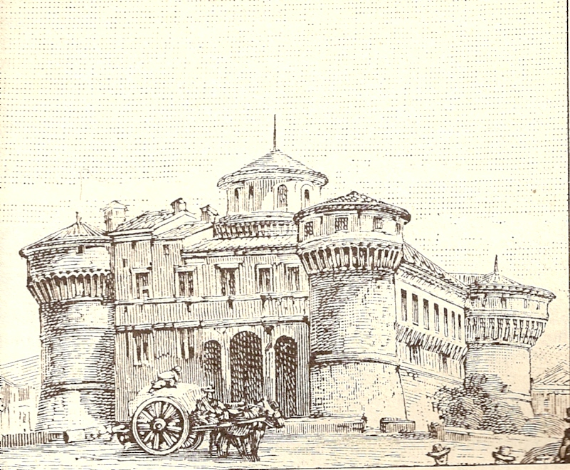 A 18th-19th century drawing of Orsini-Colonna Castle in Avezzano, Abruzzo, Italy